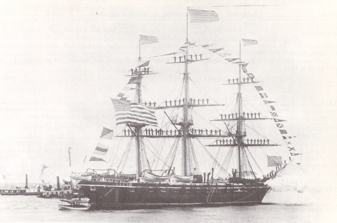 United States Navy corvette HMS Brooklyn dressed overall and with her yards fully manned at the Naval Review, 29 April 1889